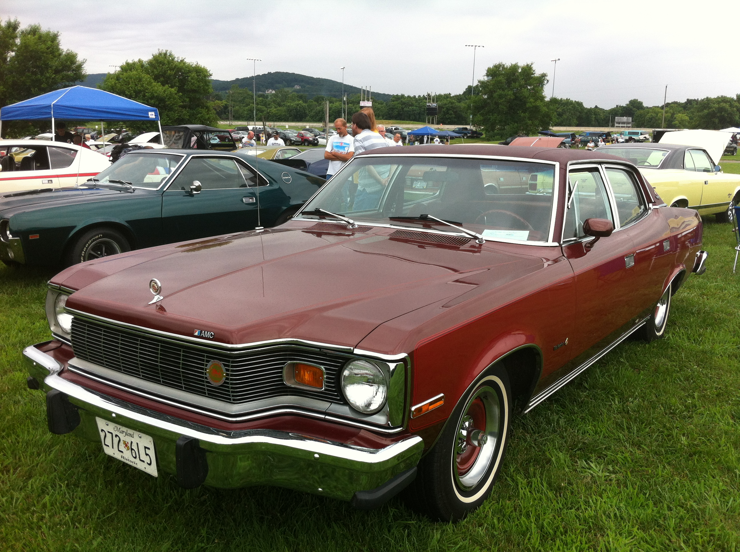 1978 AMC Matador Barcelona sedan built by American Motors Corporation. This Matador features the two-tone finish that was included with the top-of-the-line Barcelona trim and was available for only the 1978 model year on the four-door sedan. This is a full-sized car powered by AMC's 360 CID (5.9 L) V8 engine and has all luxury, convenience, and power features as standard equipment. This was the last year for the full-sized cars made by AMC. Picture taken at the 23rd East Coast AMC Day that was held at the Mason-Dixon Dragway located near Boonsboro, Maryland.